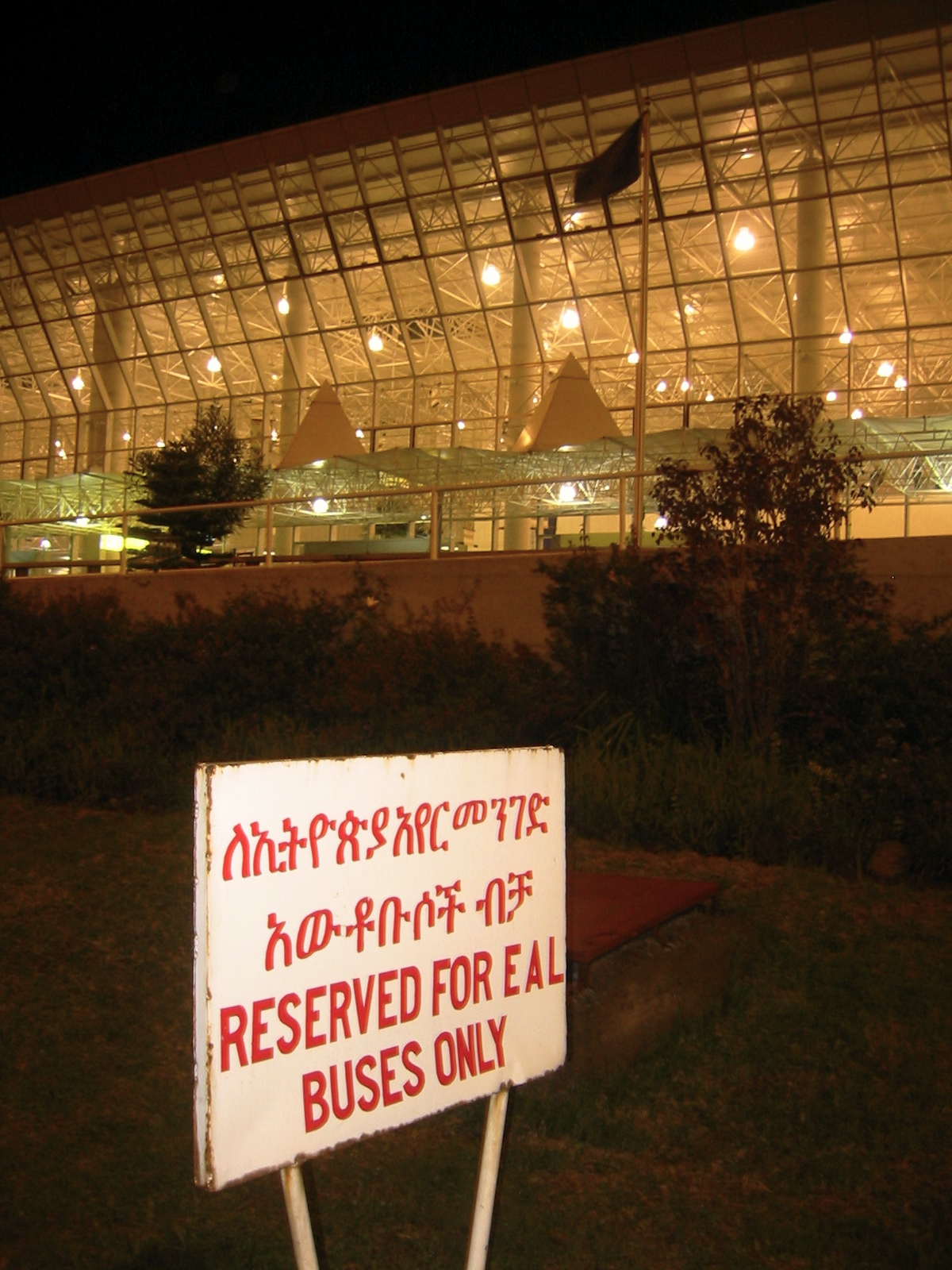 Bole International Airport